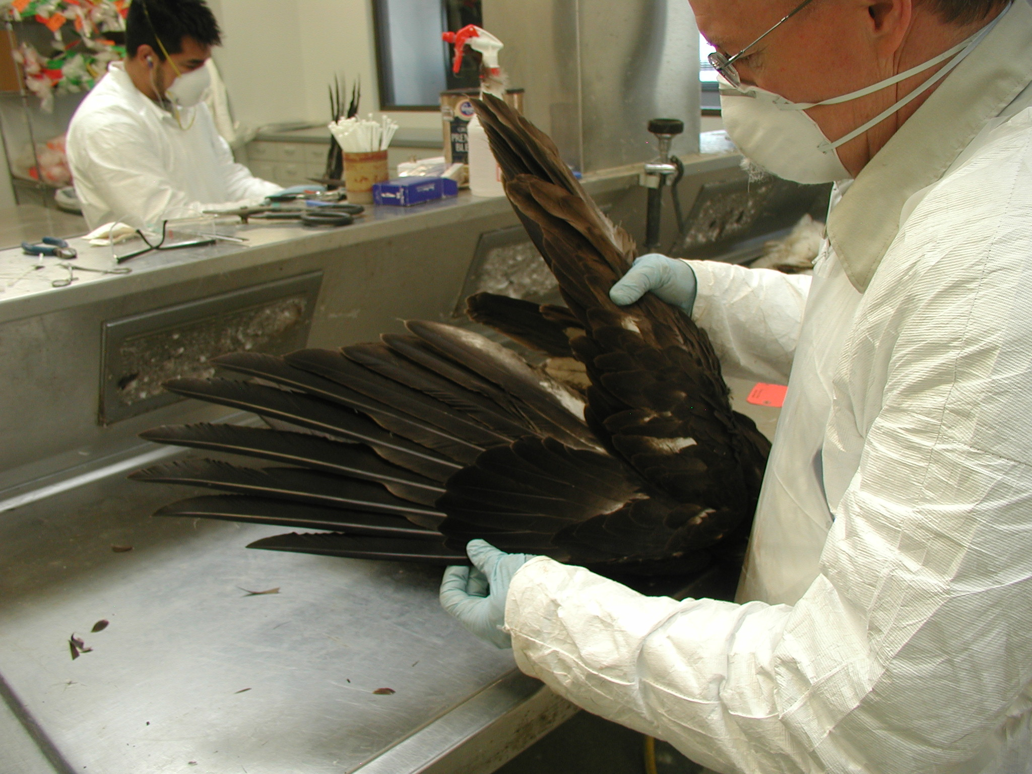 National Eagle Repository, Us FWS. Staff processing a Bald Eagle (Haliaeetus leucocephalus)